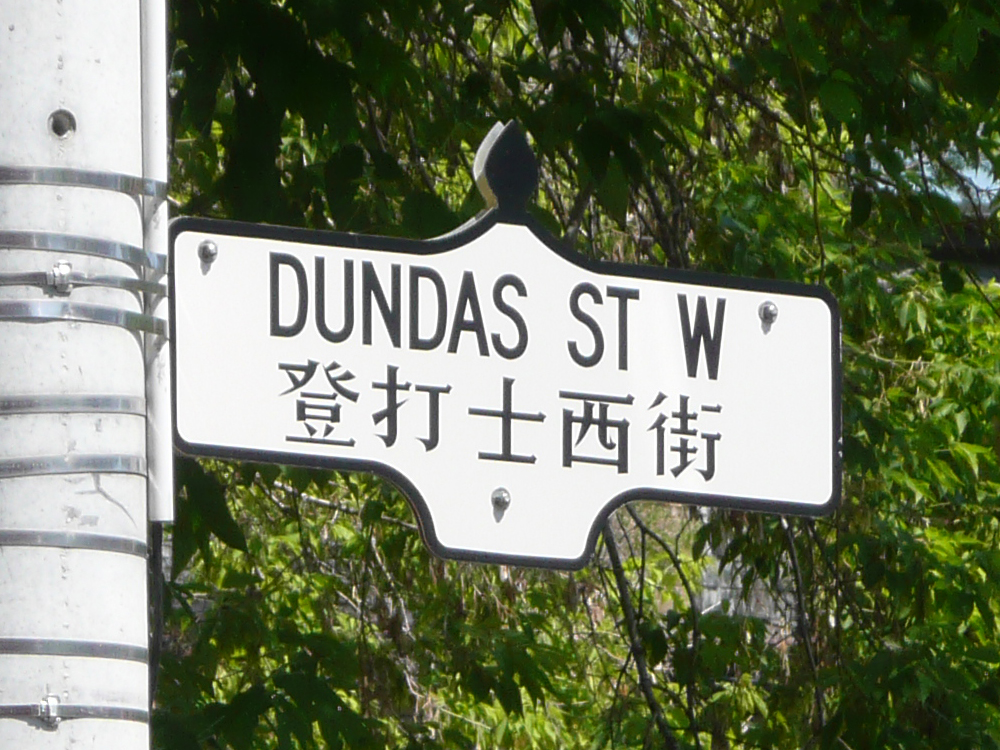 Bilingual street sign for Dundas Street West in Toronto's Downtown Chinatown.中文（香港）: 多倫多中區華埠登打士西街的雙語路牌。